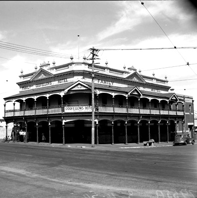 Oddfellows Hotel on South Terrace, Fremantle - 3 April 1950. Built originally by George Albert Davies - Mayor in 1887